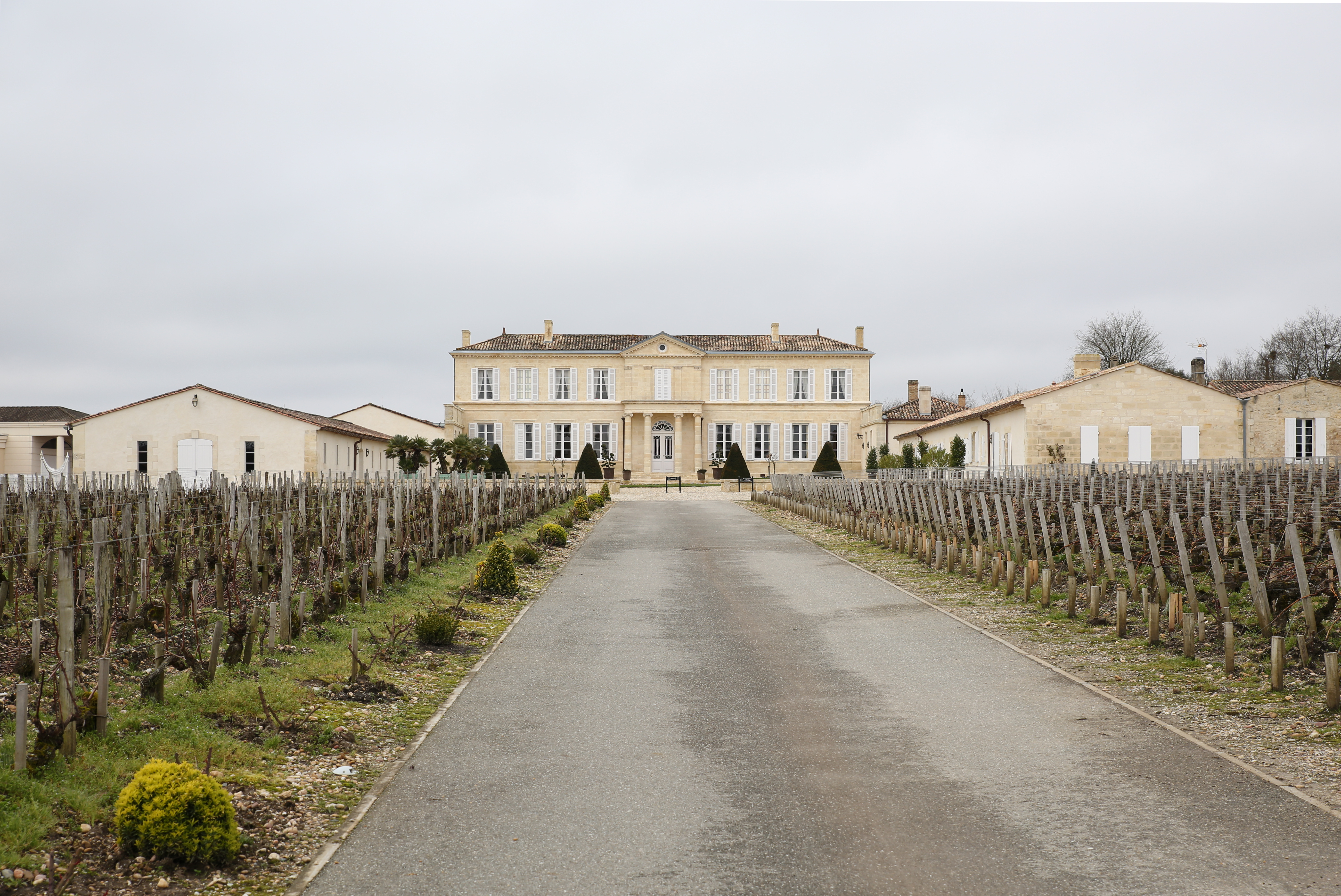 Château Branaire-Ducru